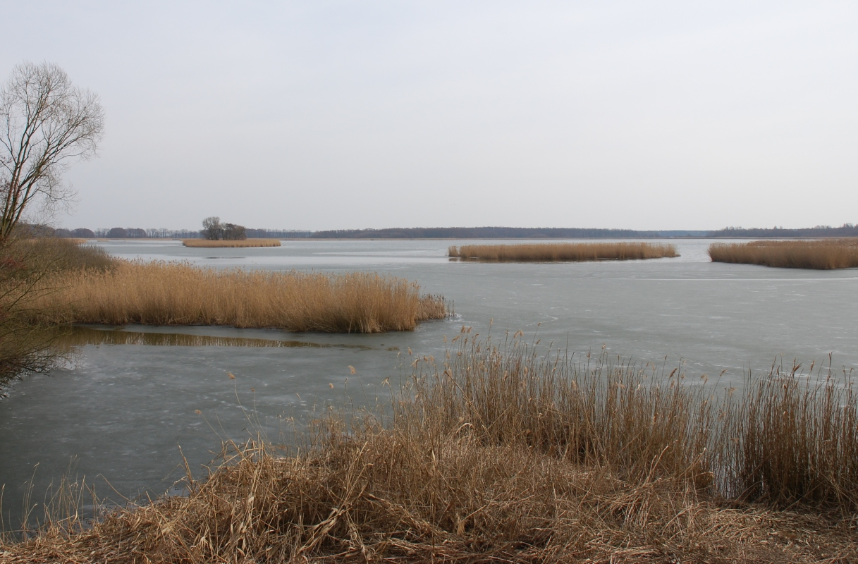 Ponds of Milicz in early spring, Lower Silesia, Poland